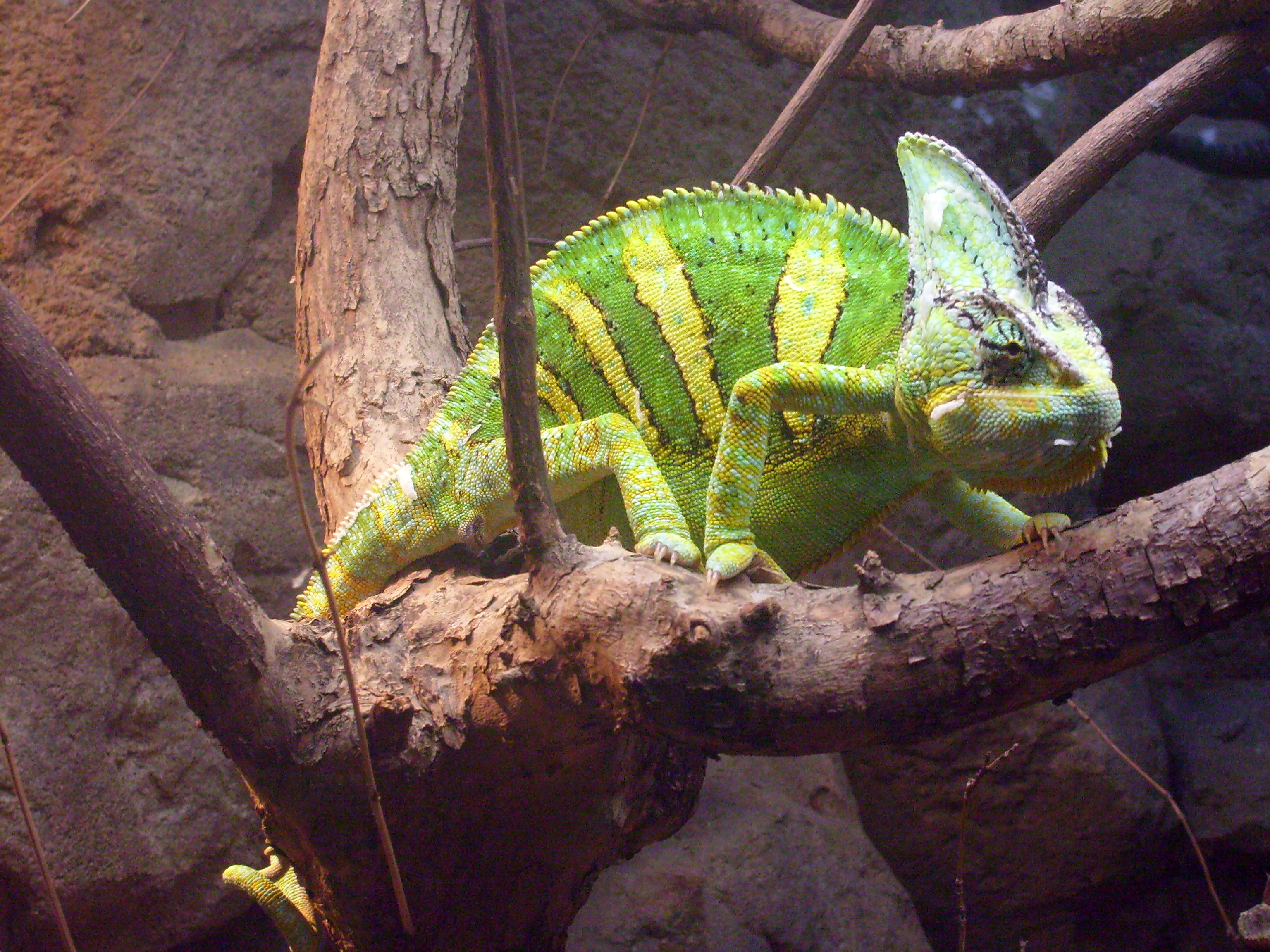 Chamaeleo calyptratus. Veiled Chameleon or Yemen Chameleon in Zoo Wuppertal - Germany